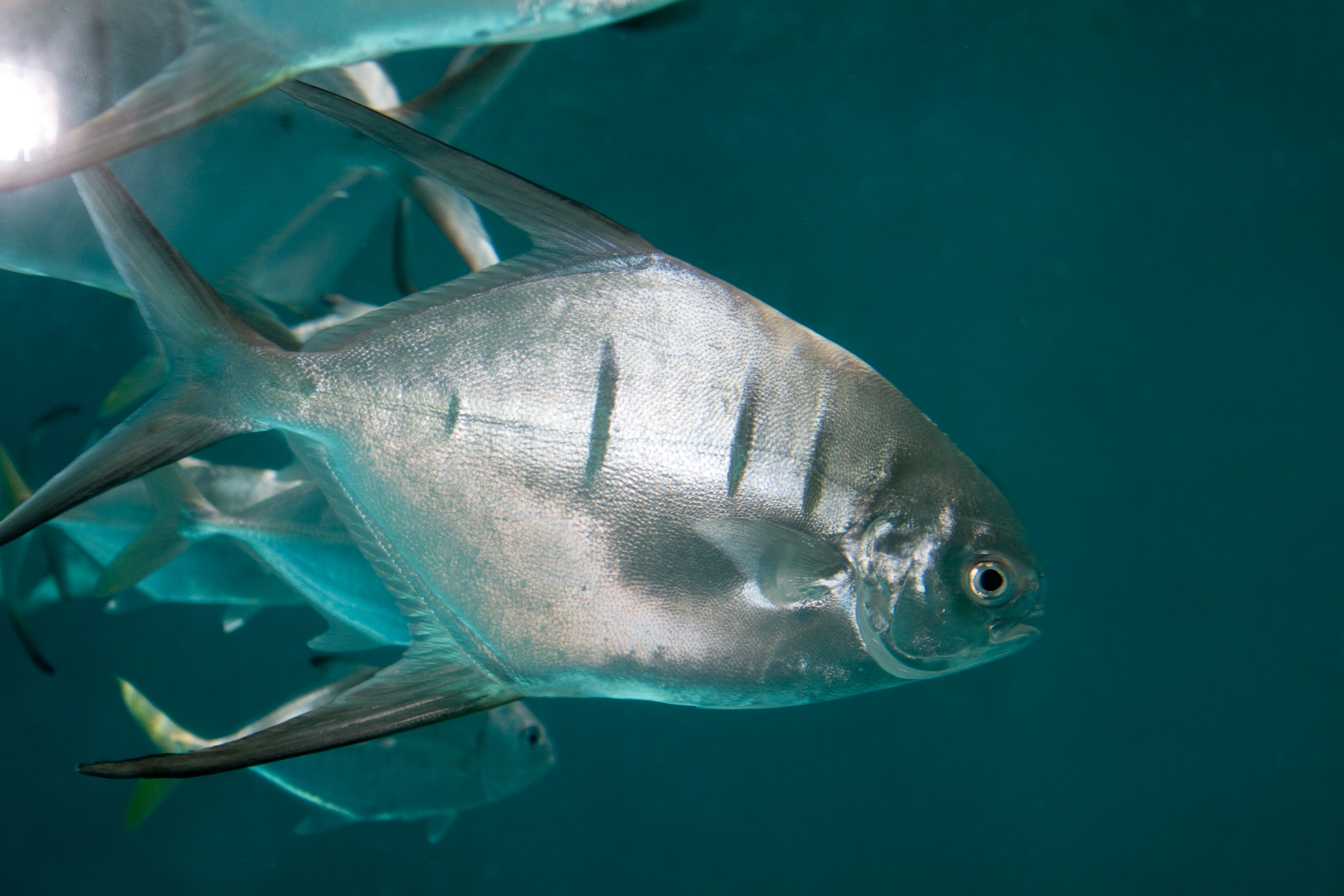 The Palometa,Trachinotus goodei, is an ocean-going game fish of the family Carangidae. In the wild, Palometa eat worms, insect pupae, and smaller fish[2] .